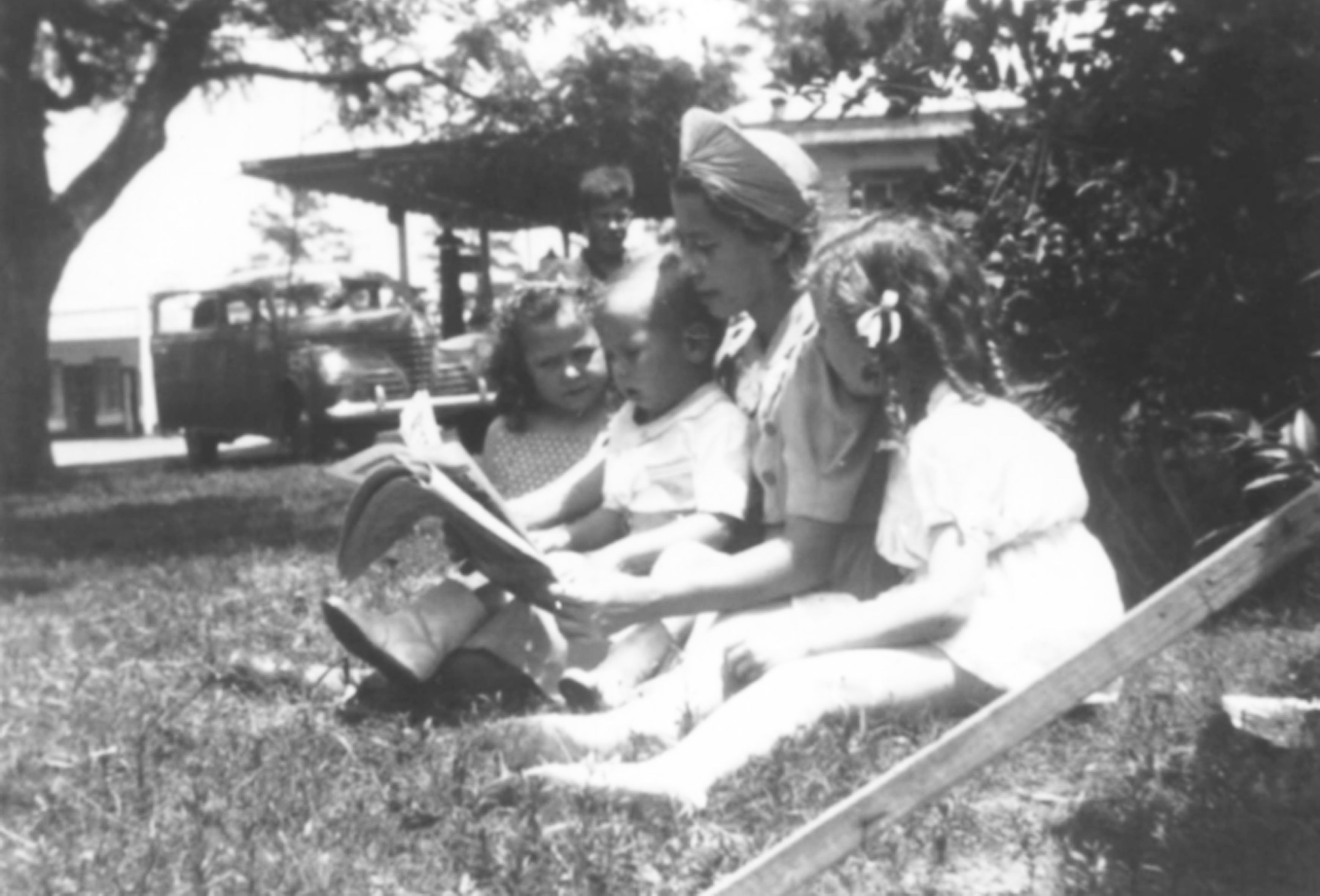 Robert Patrick and sisters Read To By Mother.